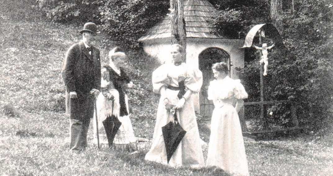 Familie Schönfeldt